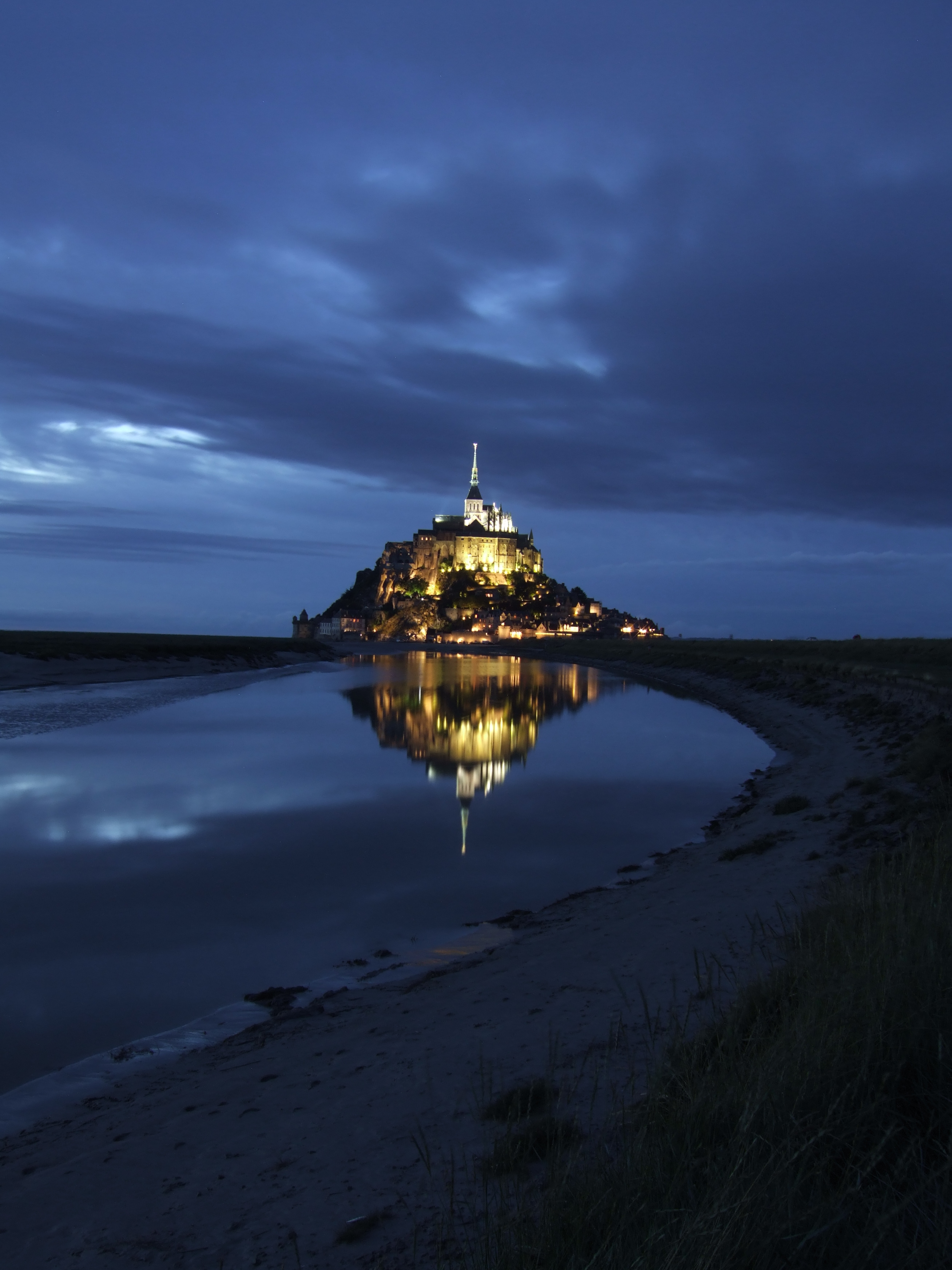 The Mont St. Michel at night with a reflection in the water